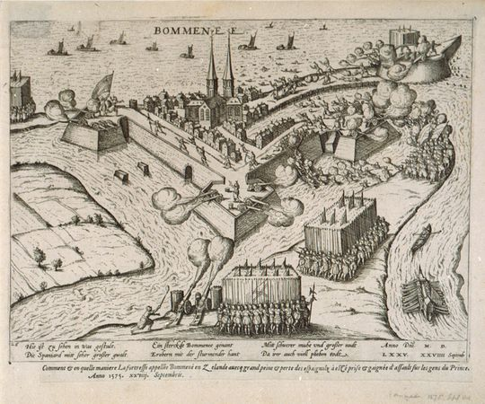 Spanish troops siege the Dutch town Bommenede in 1575, etching, text below in German reads